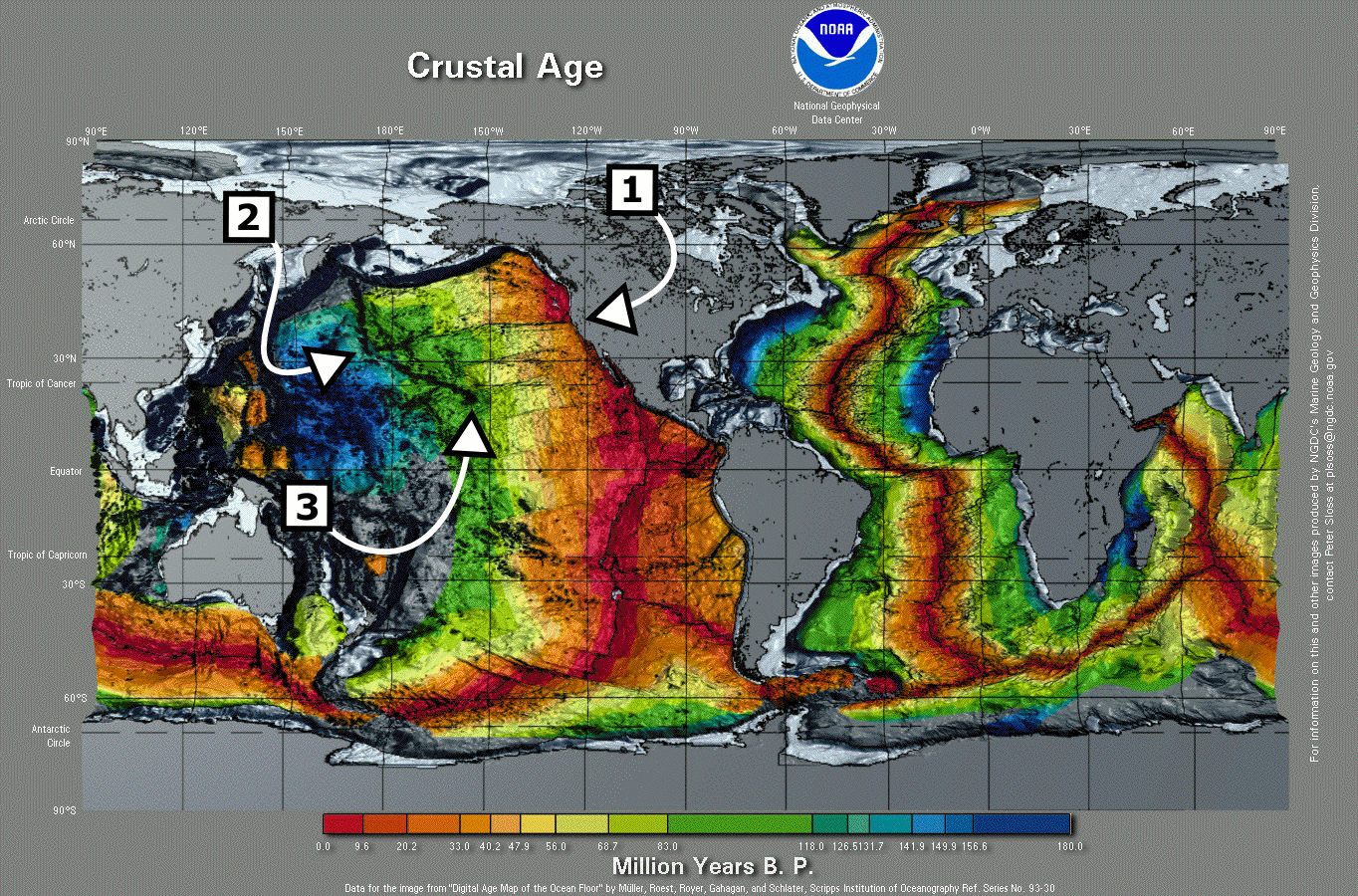 1997 Map of ocean floors, colors indicate differences in age.1. - Mendocino Fracture Zone2. - Bend in Hawaii hotspot trail3. - Hawaii hotspot